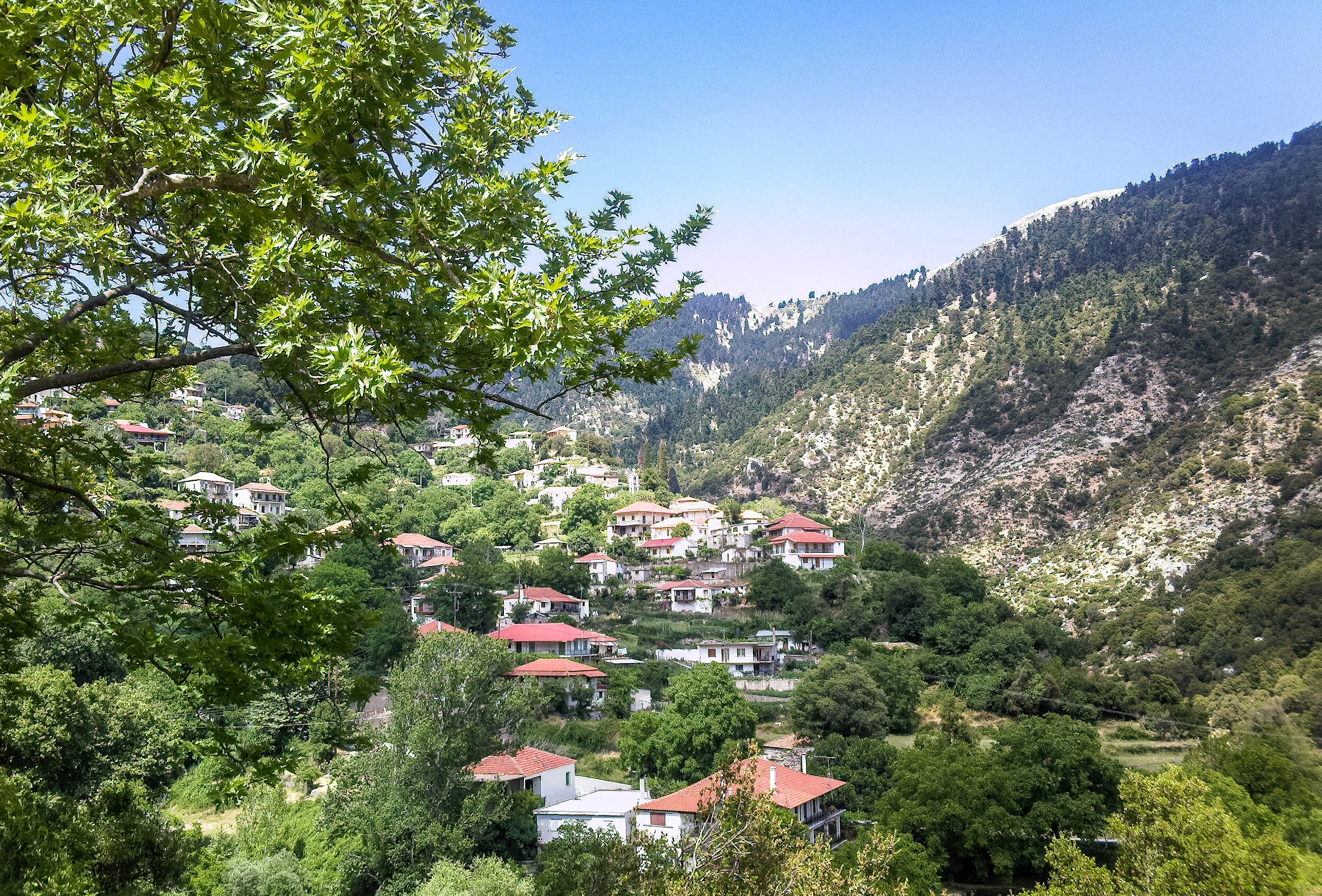 Lampeia (Divri) village, Ileia, Greece. Partial view of the village.